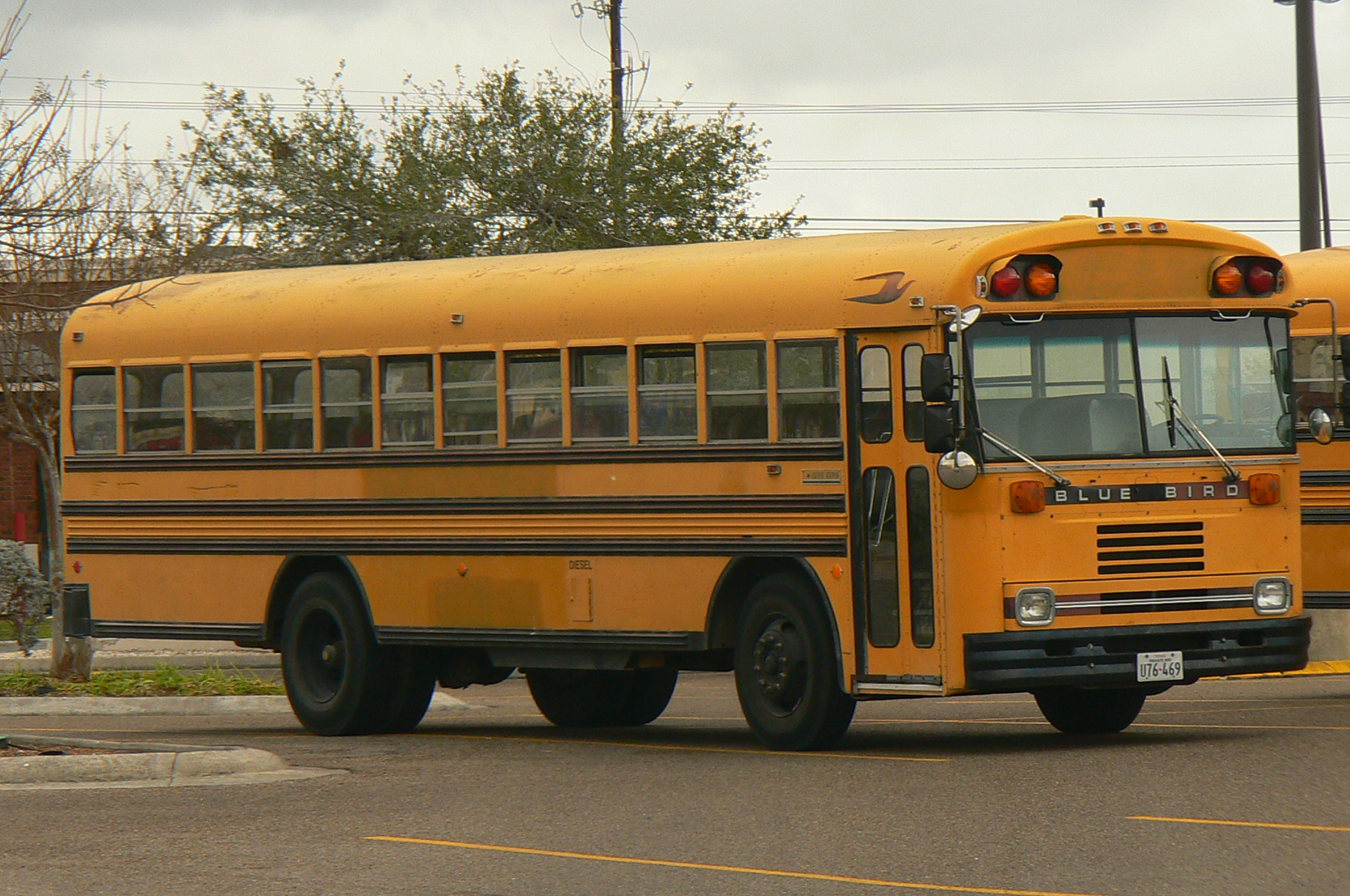 Late 1980s Blue Bird TC/2000 school bus (retired)